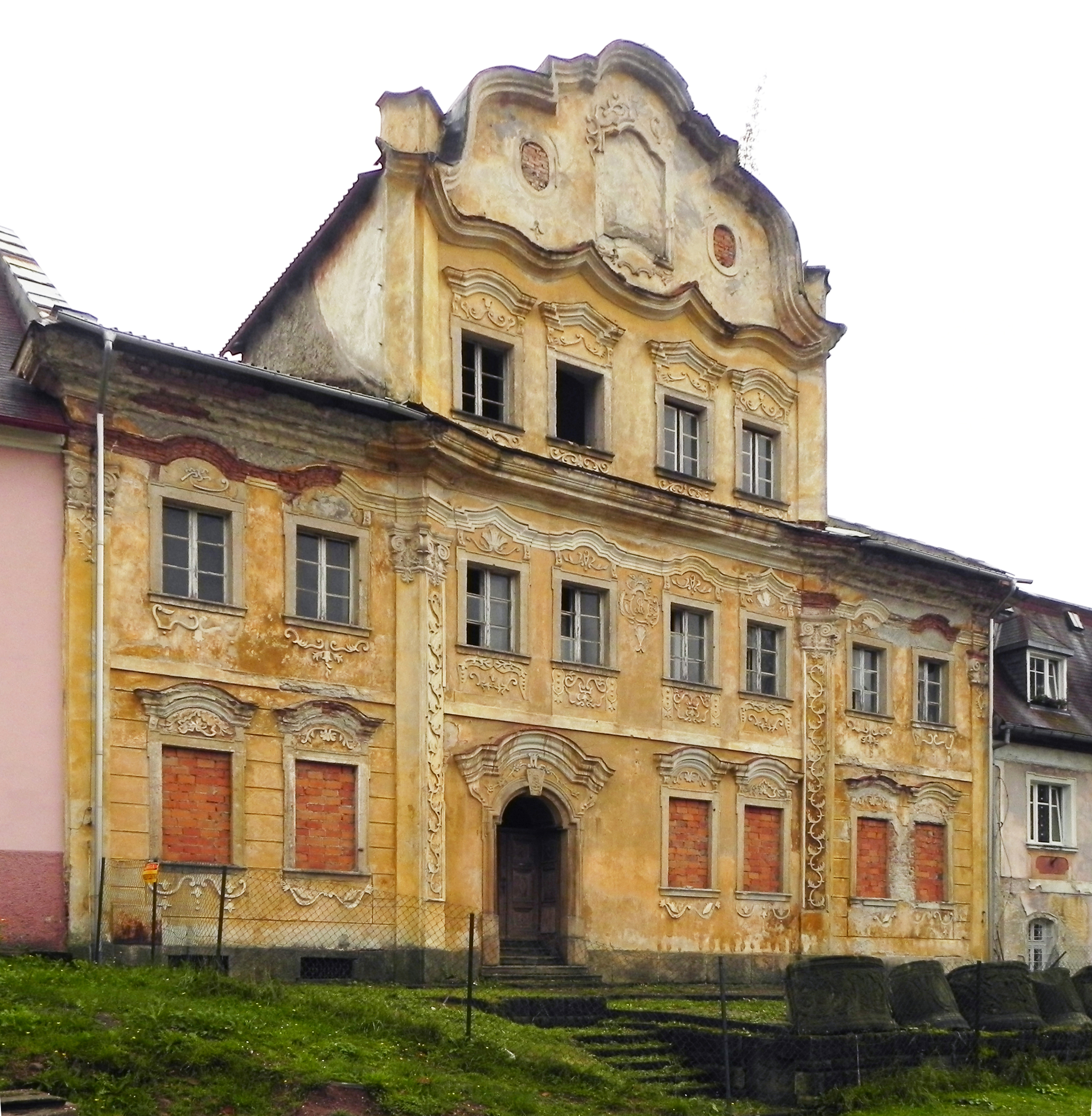 18 Kościuszki Square in Lewin Kłodzki